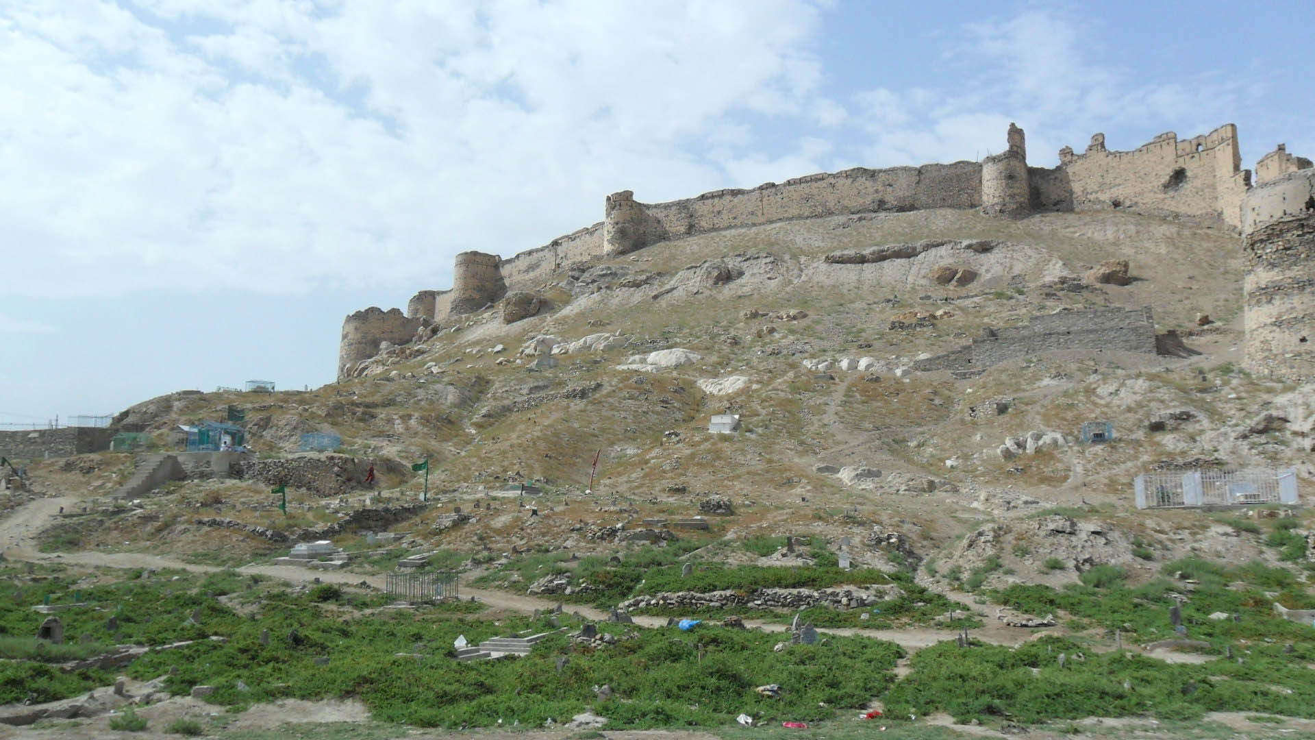 External View of Bala Hissar and the cemetery bordering the fort.